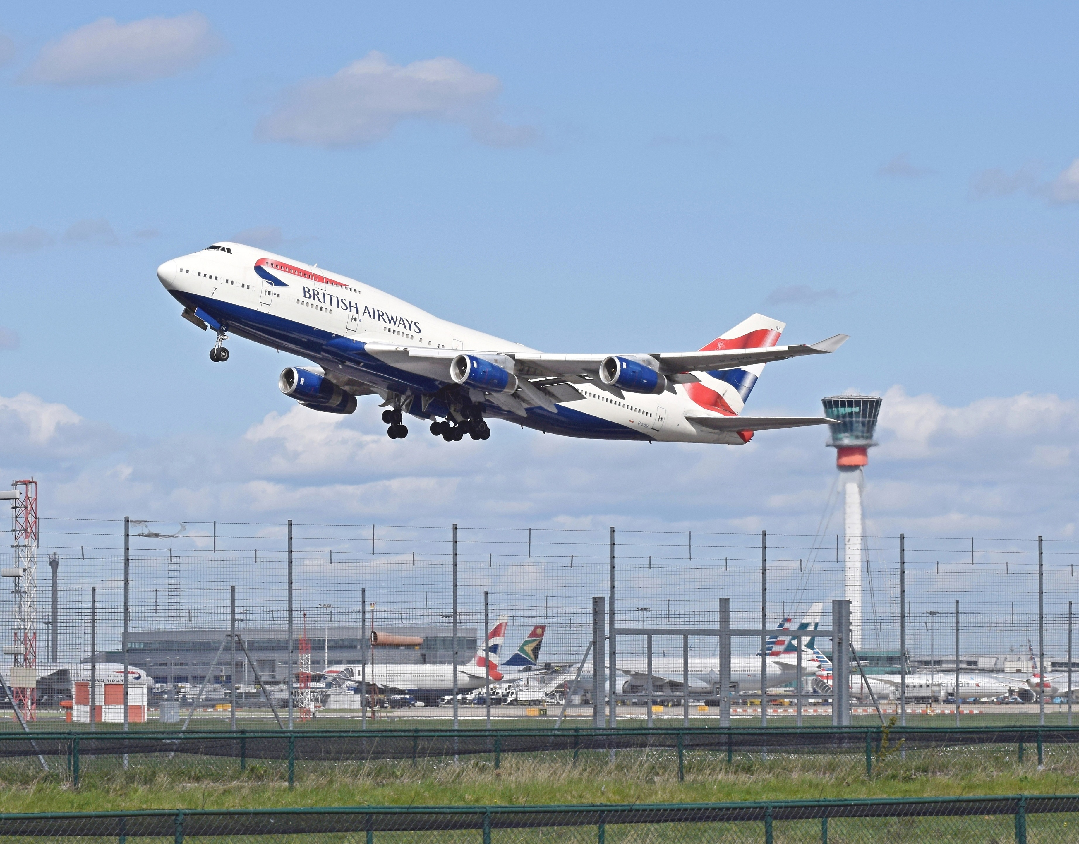 British Airways Boeing 747-400 departs London Heathrow Airport, England, from runway 27L. The undercarriages have not yet retracted. The control tower is in the background, blurred by the engine exhaust.